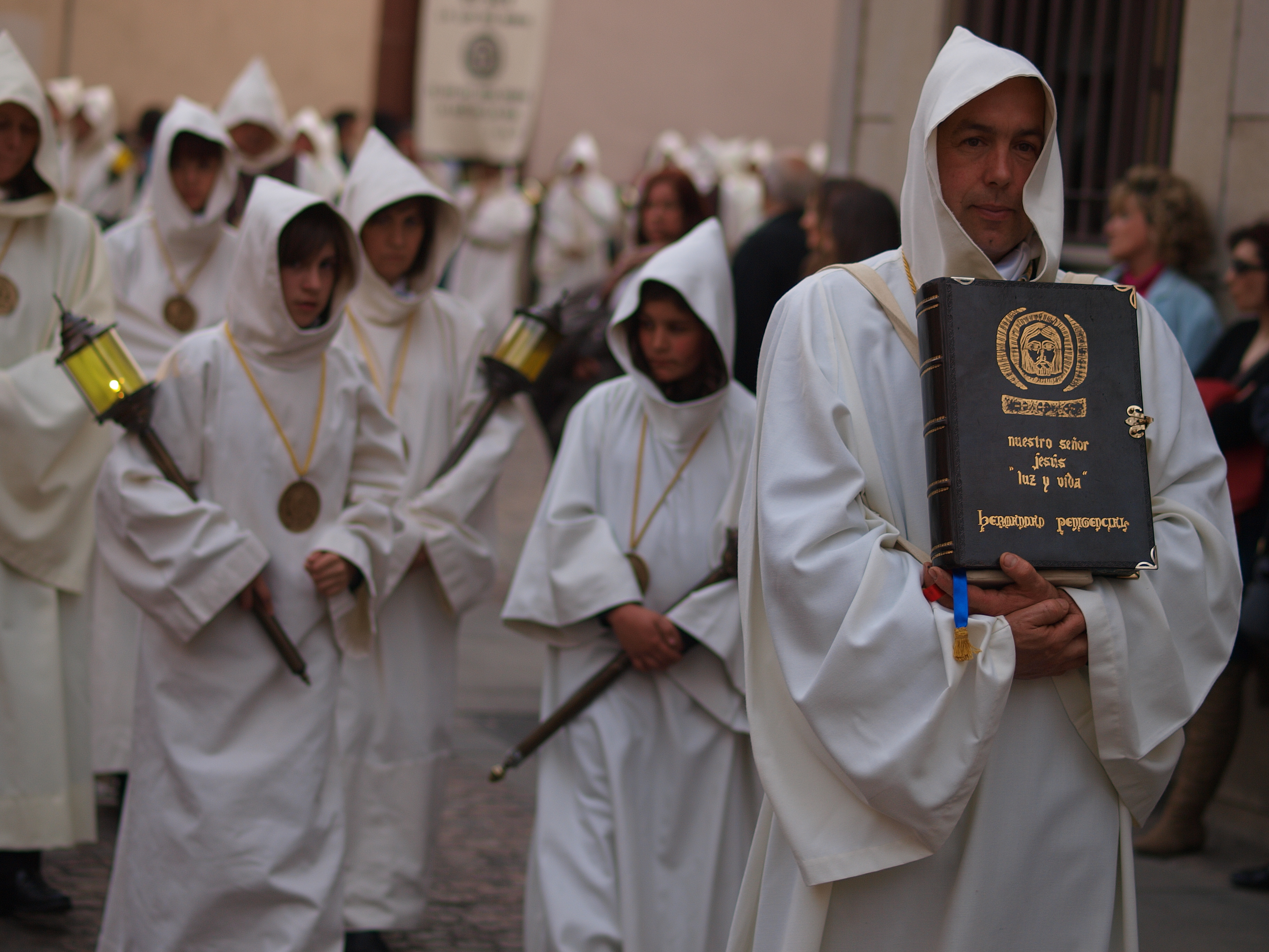 Procesion of the Hermandad Penitencial de Nuestro Señor Jesús Luz y Vida (Penitent Brotherhood of Our Lord Jesus Light and Life), Holy Week in Zamora (Spain) 2012.